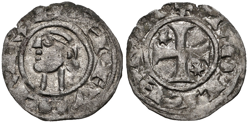 Dinero (Castilian coin) minted in Toledo during the reign of the Aragonese king Alfonso I the Battler.